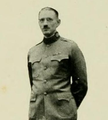 Major F. W. Boye